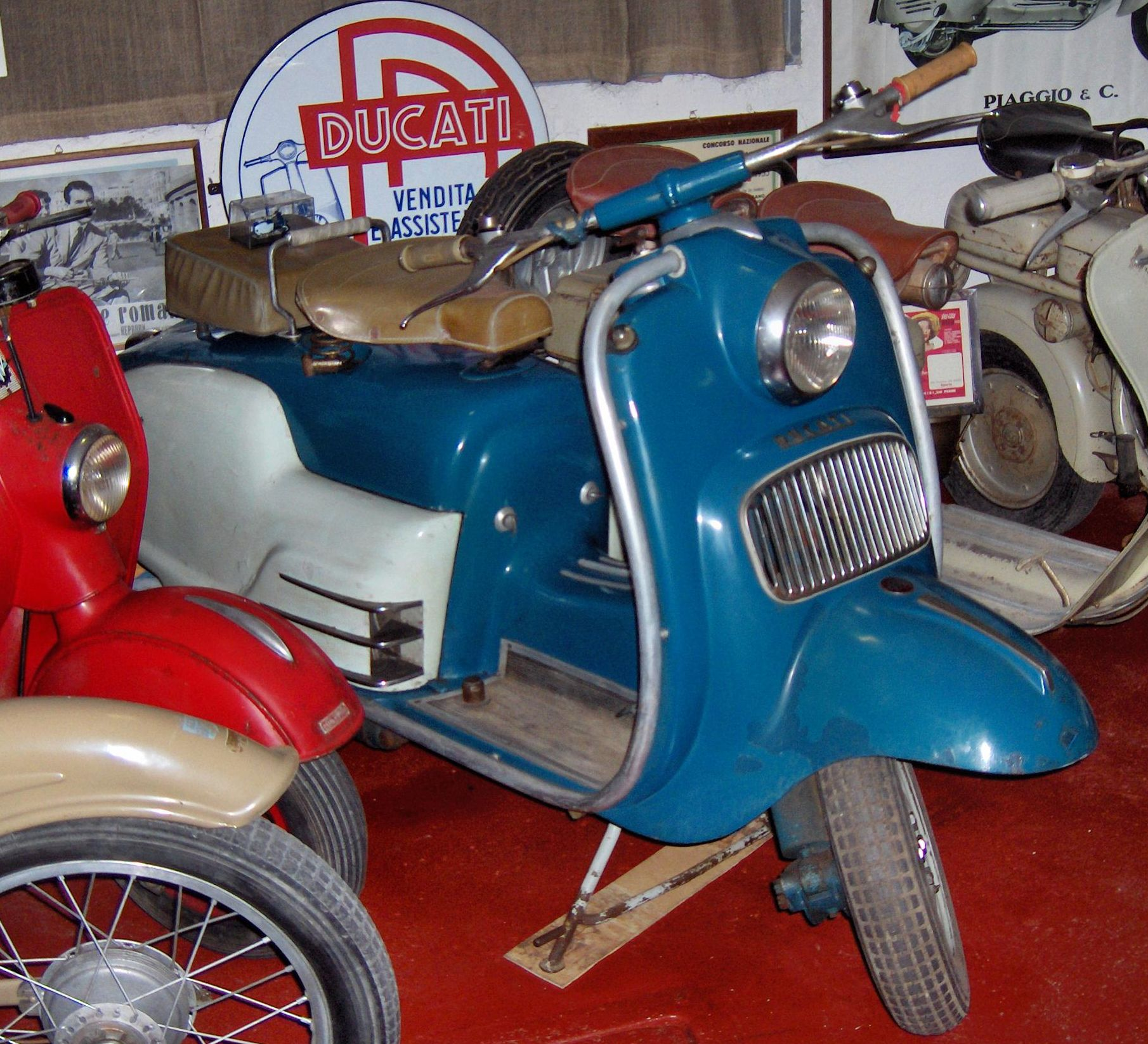 Historic scooters in the private scootermuseum, Assisi, Italy